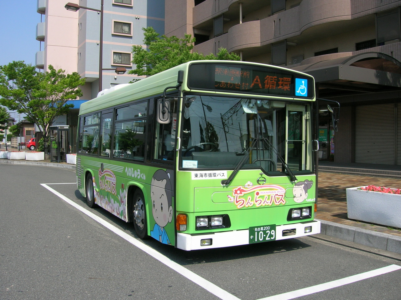 RANRAN Bus, Community Bus of Tokai city. Loc: Nawa Station, Tokai city, Aichi prefecture, Japan.